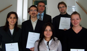 Kerényi Károly Szakkollégium